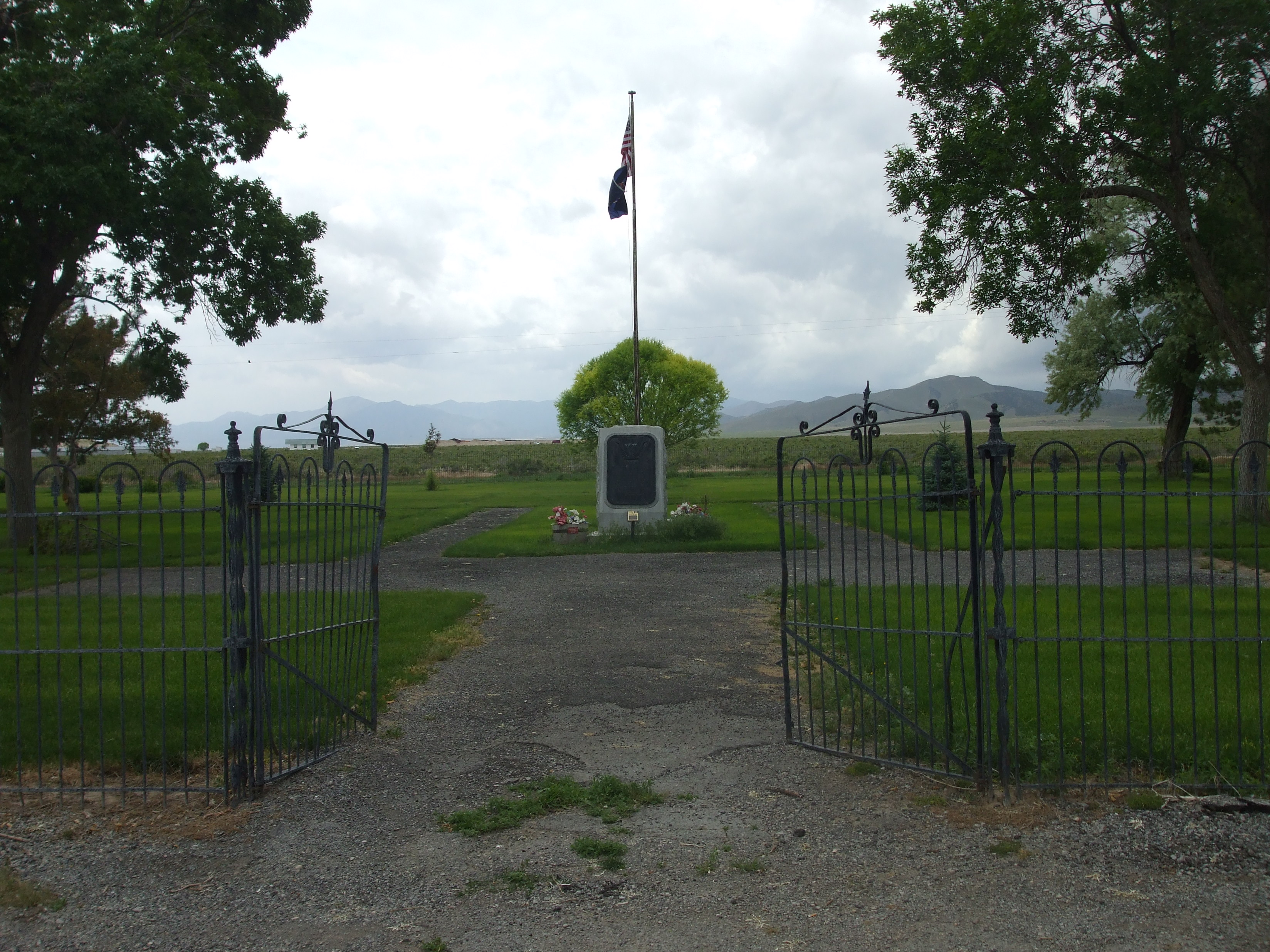 The historic Camp Floyd Cemetery is the only visible remnant of Camp Floyd, U.S. Army post in Fairfield, Utah, 1858–1861.